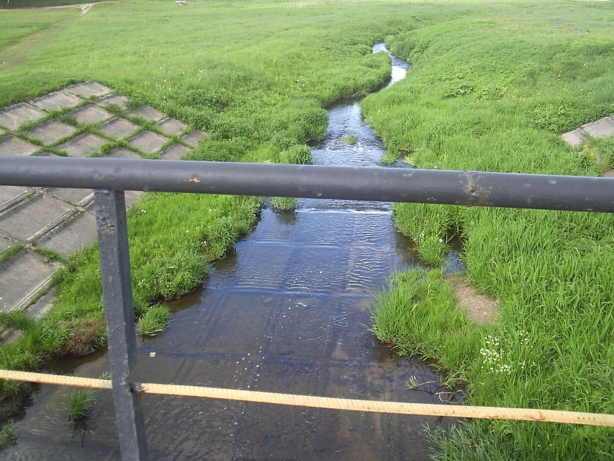 River Ratamka after damb